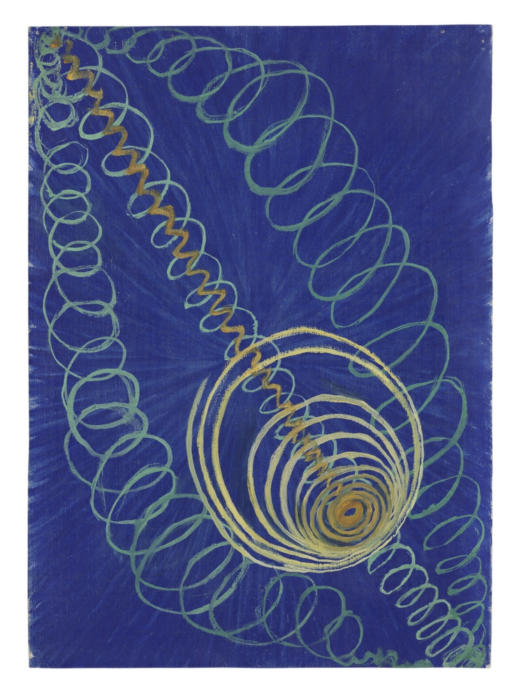 Hilma af Klint, Primordial Chaos, No. 16. From The WU/ROSEN Series. Grupp 1, 1906-1907 Courtesy Stiftelsen Hilma af Klints Verk. Photo: Albin Dahlström/ Moderna Museet.